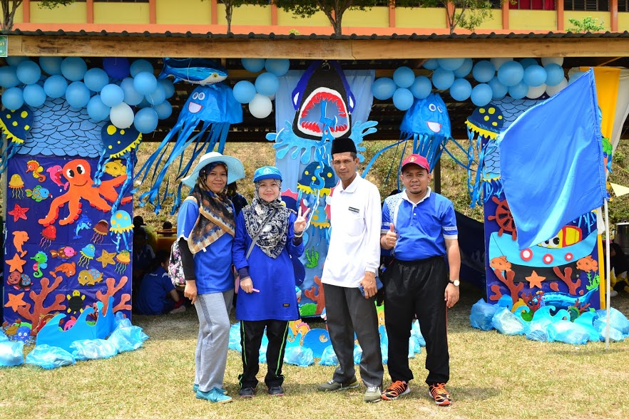 sukan 2018 (2)